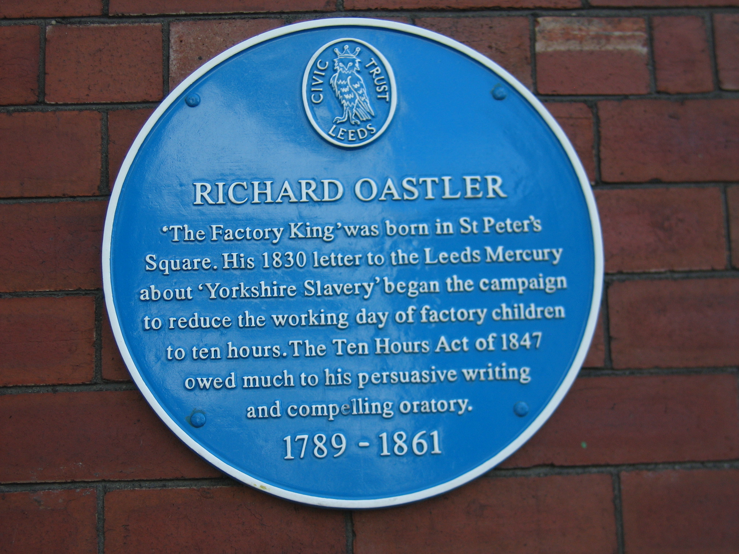 A plaque dedicated to the prominent labour reformer, Richard Oastler, in Leeds.